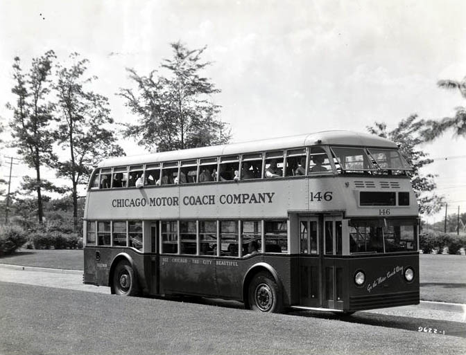 Digital ID: 482350. 72 Pass. Double Deck Coach - 1936. [Chicago Motor Coach Company]. Source: Photographs of General Motors and Chrysler car and truck models, 1902 - 1938. / G. M. Coach Company 1936. Photographs - Specifications. ( Repository: The New York Public Library. Science, Industry and Business Library. General Collection Division. See more information about and others at Persistent URL: Rights Info: No known copyright restrictions; may be subject to third party rights (for more information